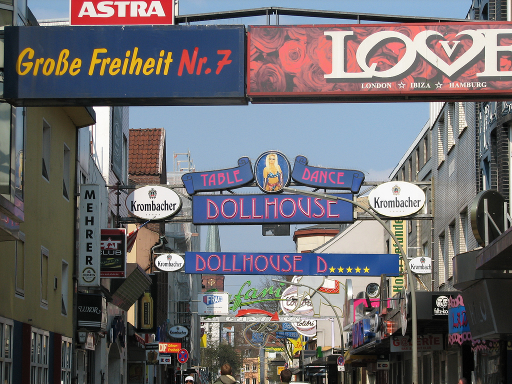 Große Freiheit, near Reeperbahn, in Hamburg-St. Pauli, Germany.